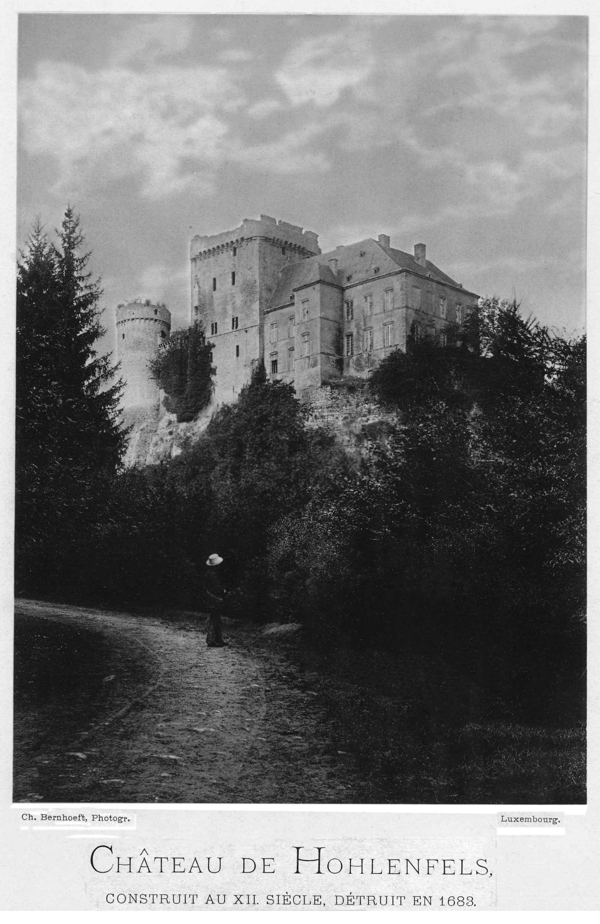 Hollenfels Castle, Luxembourg.